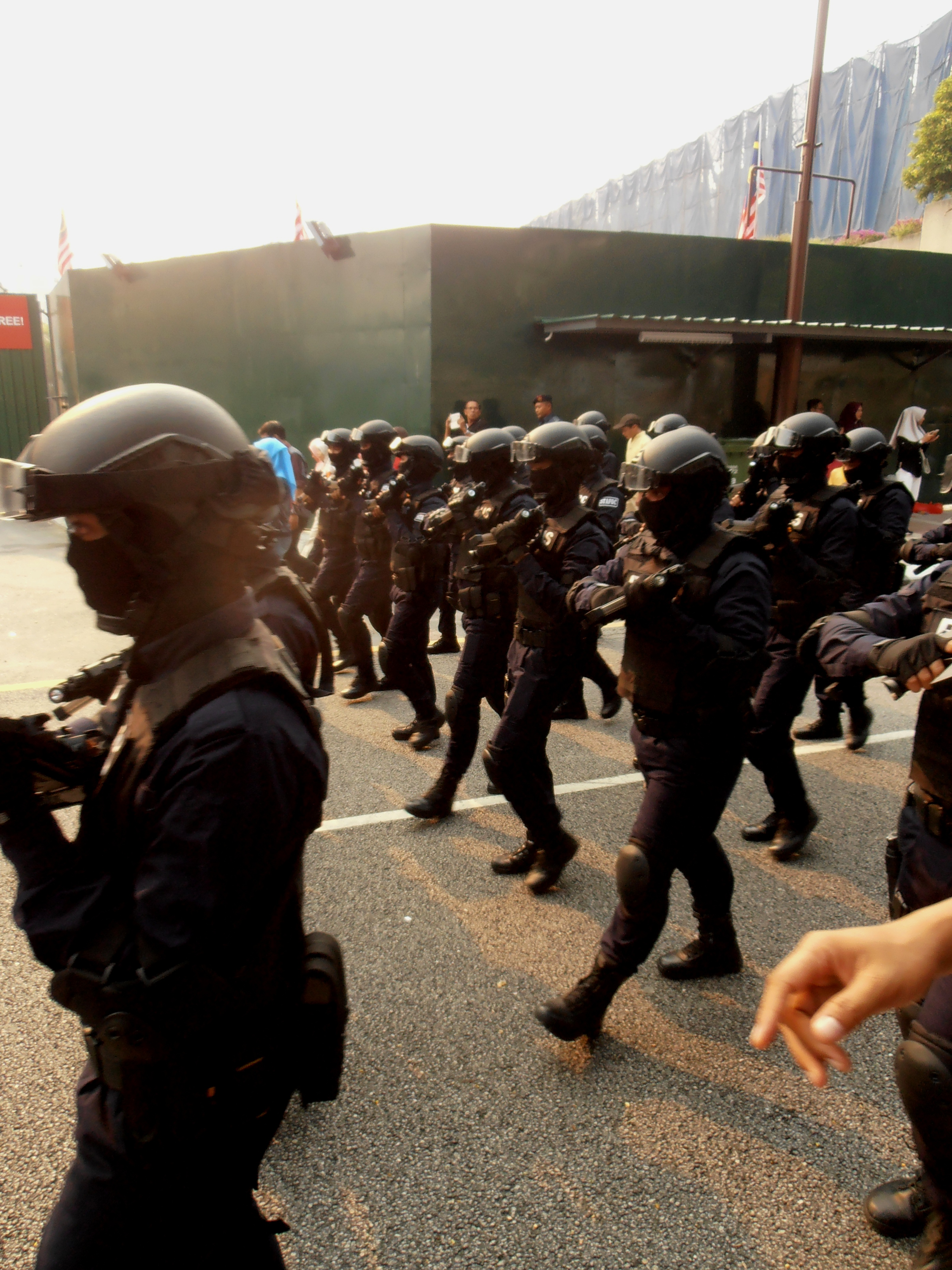 The STAFOC, STING and STAGG officers on parade during the 2015 National Day in Kuala Lumpur.